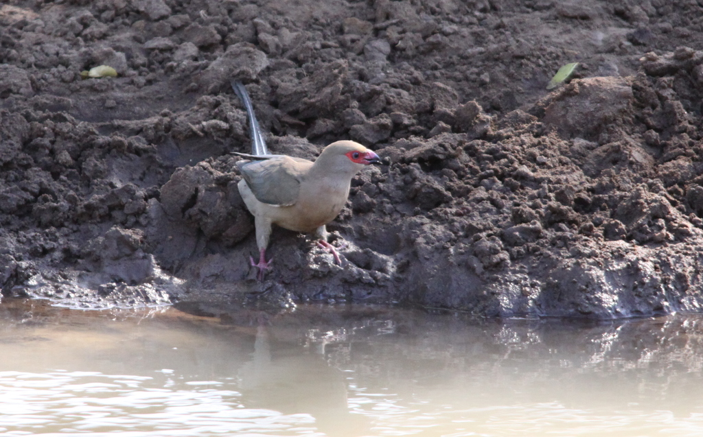 Urocolius indicus, Redfaced mousebird at the water hole.